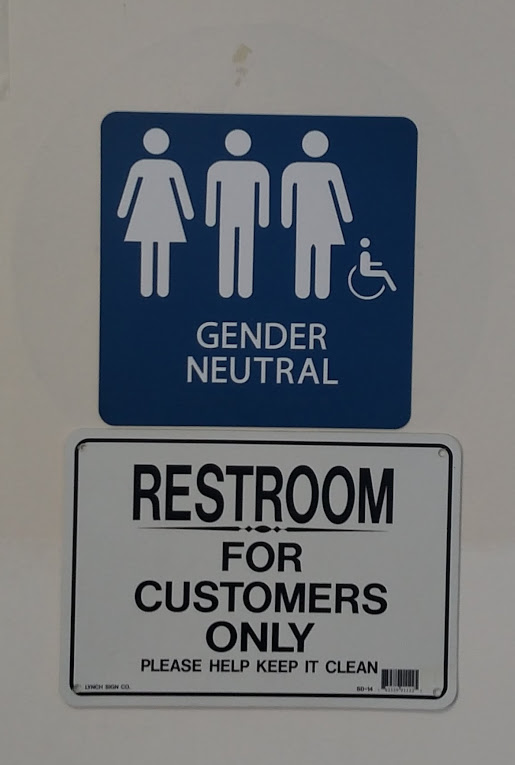 Gender neutral bathroom sign in a gas station and convenience store in the Playa del Rey section of Los Angeles, California, in December 2017. The human figure on the right appears to be split vertically, male on the left, female on the right.